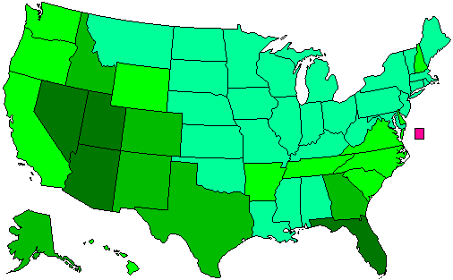 The growth of the population of each U.S. state between 1970 and 2010. The source for this data is the U.S. Census Bureau. Pink = Population decline Light green = Population growth of 0.00-49.99% Green = Population growth of 50.00-99.99% Dark green = Population growth of 100.00-149.99% Very dark green = Population growth of 150.00% or above